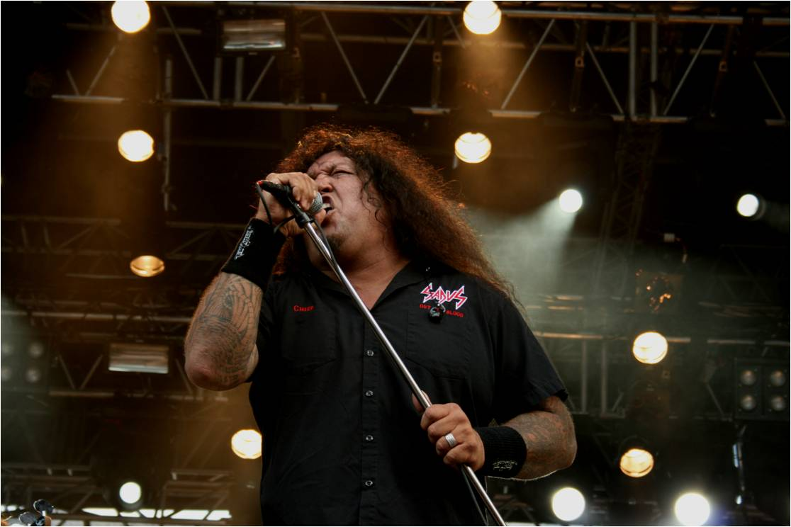 Testament at Norway Rock Festival 2009